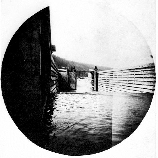 Lock in canal at Canal Flats, British Columbia, August 1, 1890.